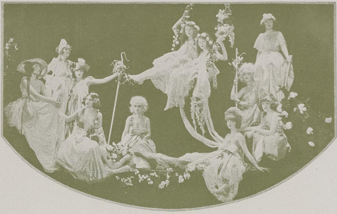 Ben Ali Haggin's last tableau for the Ziegfeld Midnight Frolic, from a 1921 publication.